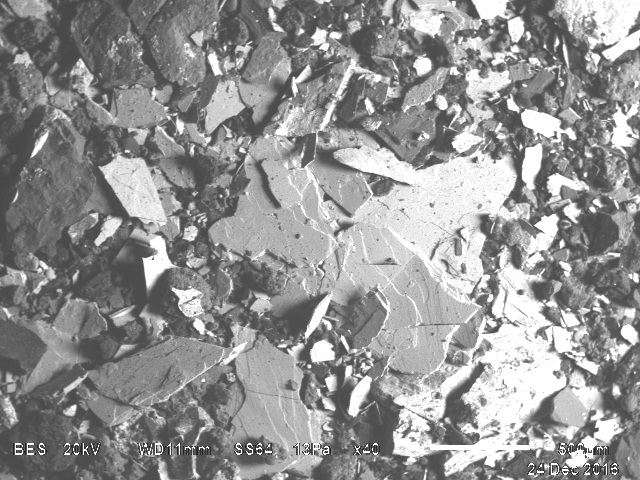 The microphoto shows a tungsten concentrate consisting of 70% of tungsten (lamellar, shiny, large associates), as well as dark crystals of transition metal silicates - iron and manganese. Electronic microphoto, magnification 40X.